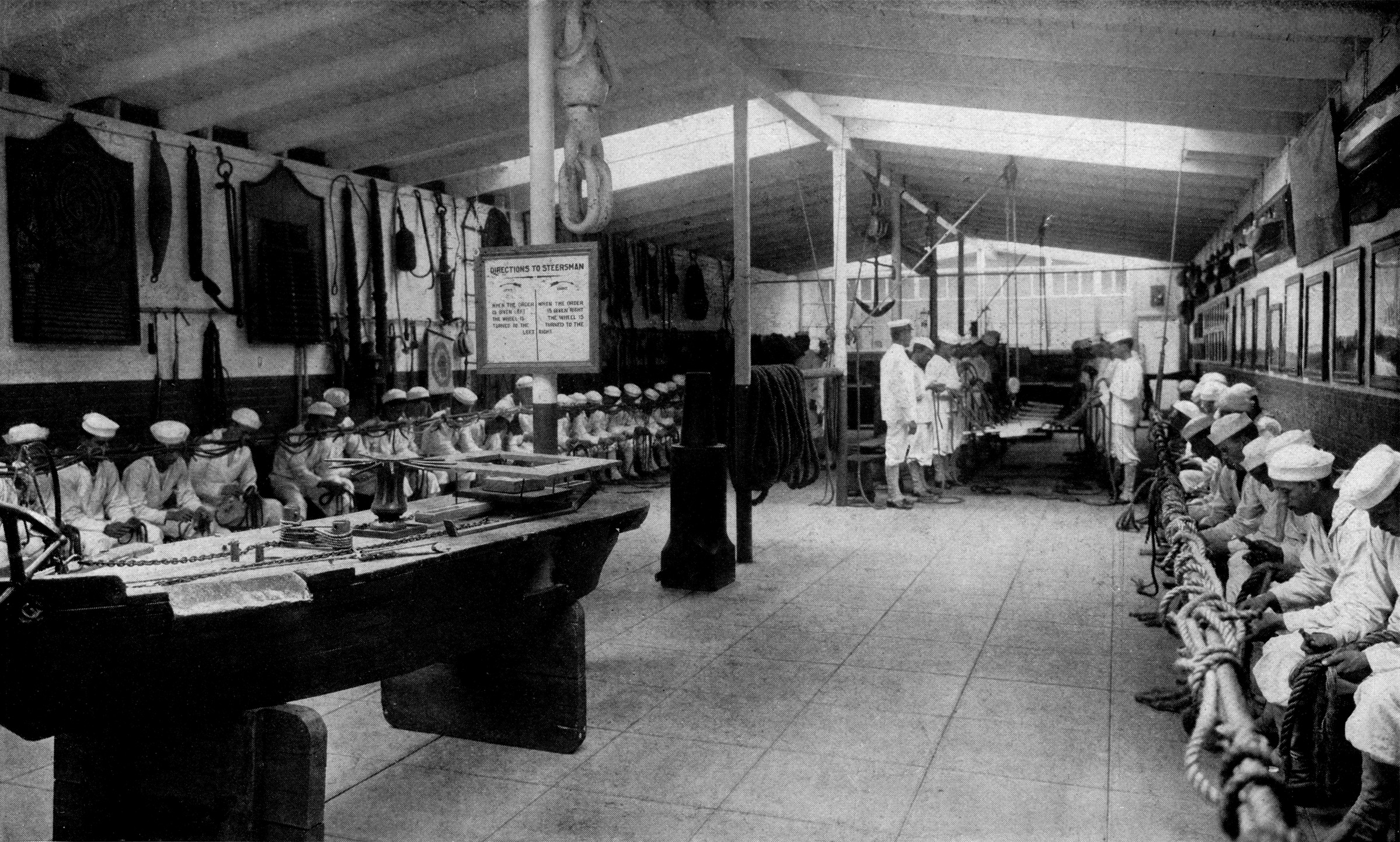 SCHOOL FOR SAILORS, NAVAL TRAINING STATION: Newport, Rhode Island. Instead of working at a blackboard with chalk, these pupils solve their problems on a wooden rail with rope. The course in elementary seamanship conducted in this rigging loft includes a mastery of the subject of knotting and splicing.